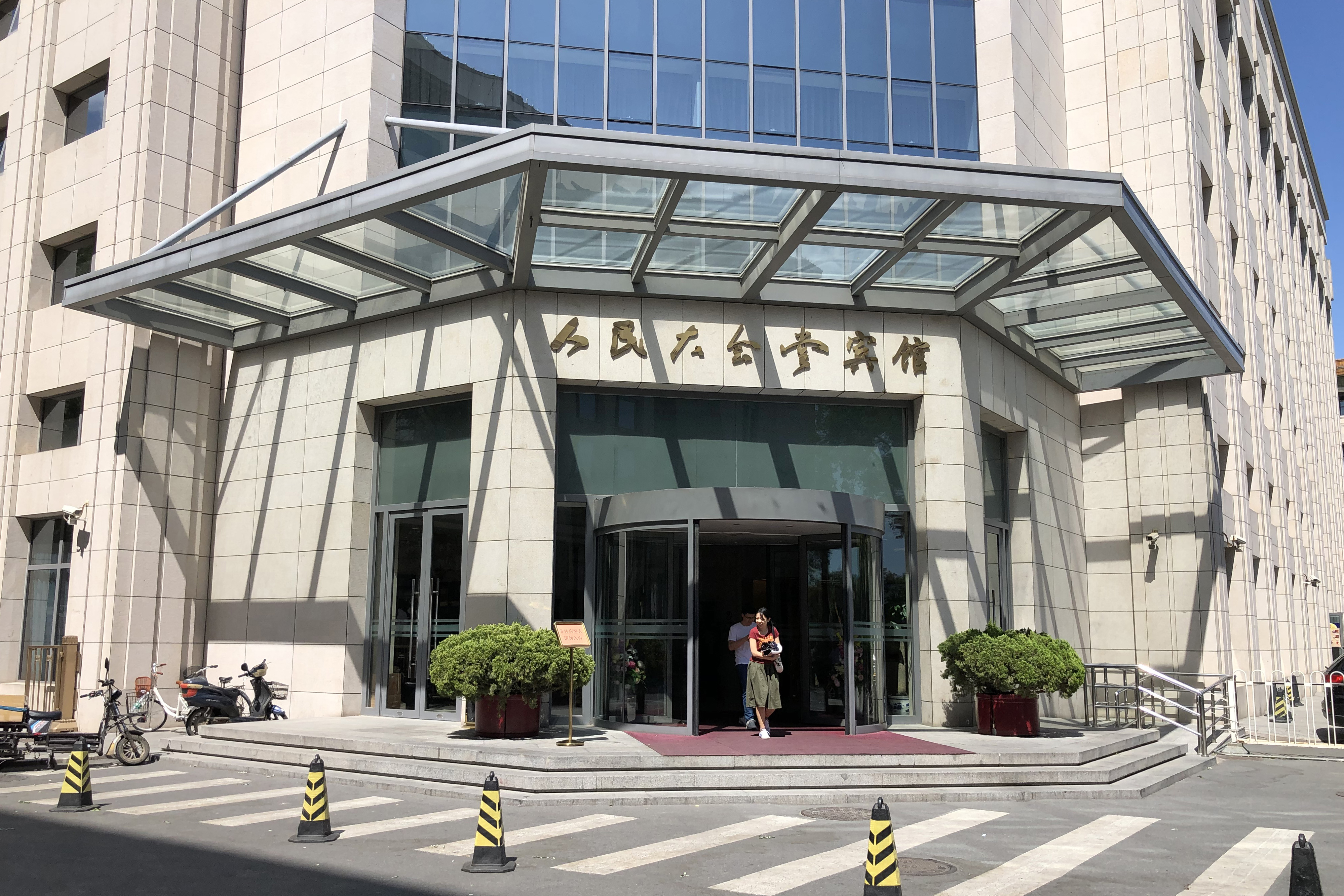 Not in the Great Hall of the People.